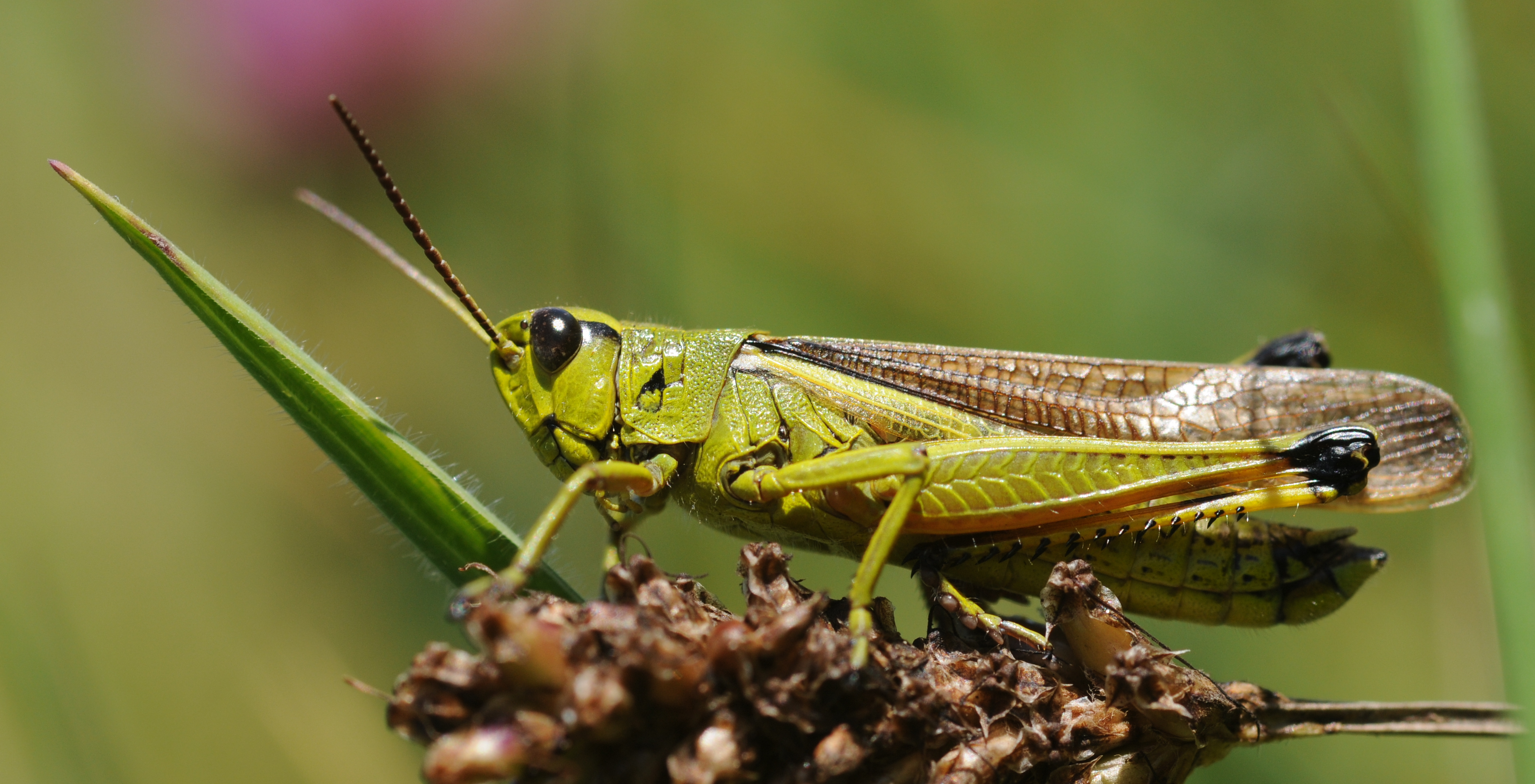 A Grasshopper Stethophyma grossum (Orthoptera : Acrididae)